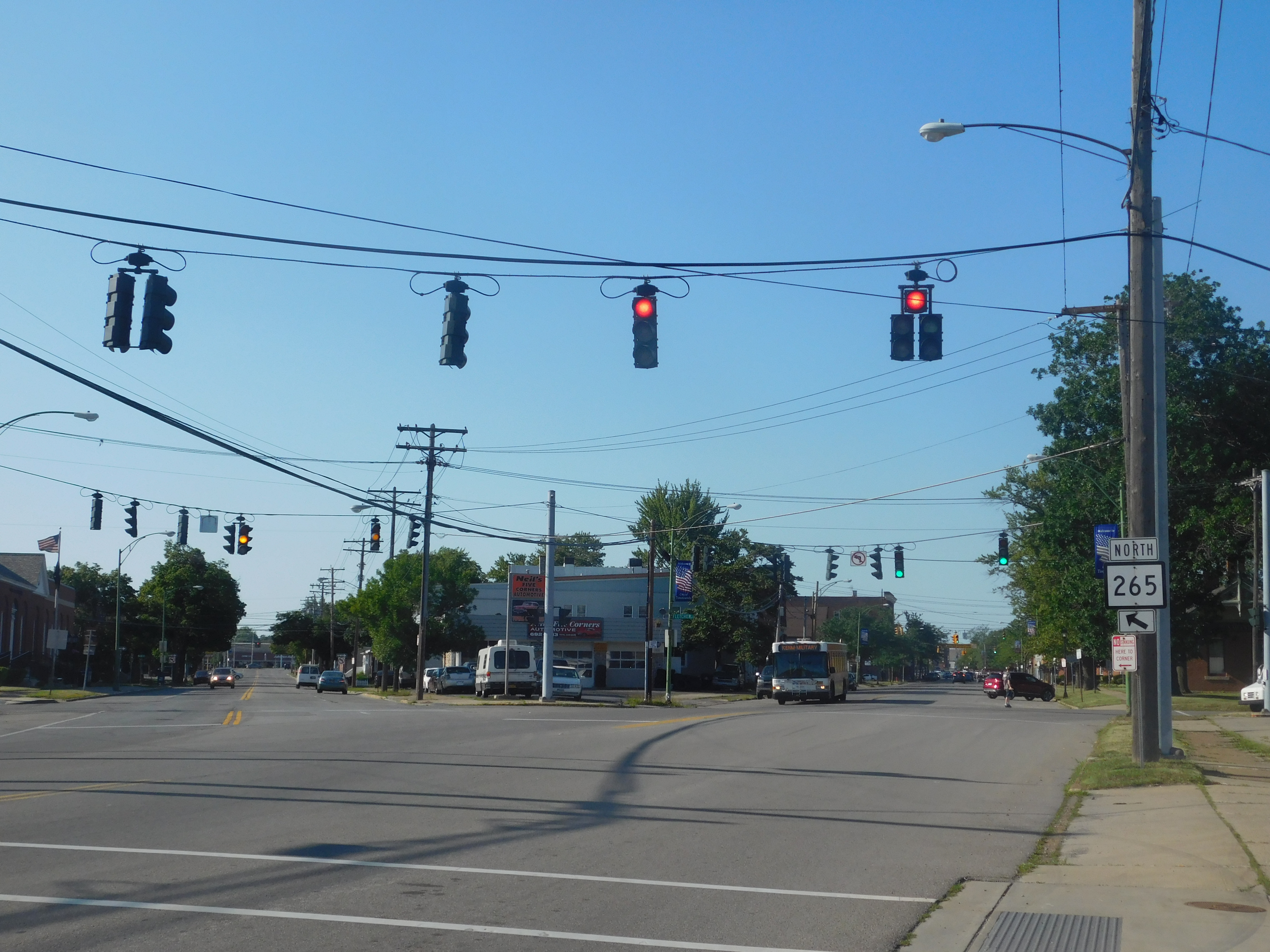 NY 265 in the city of Tonawanda, New York in July 2017.